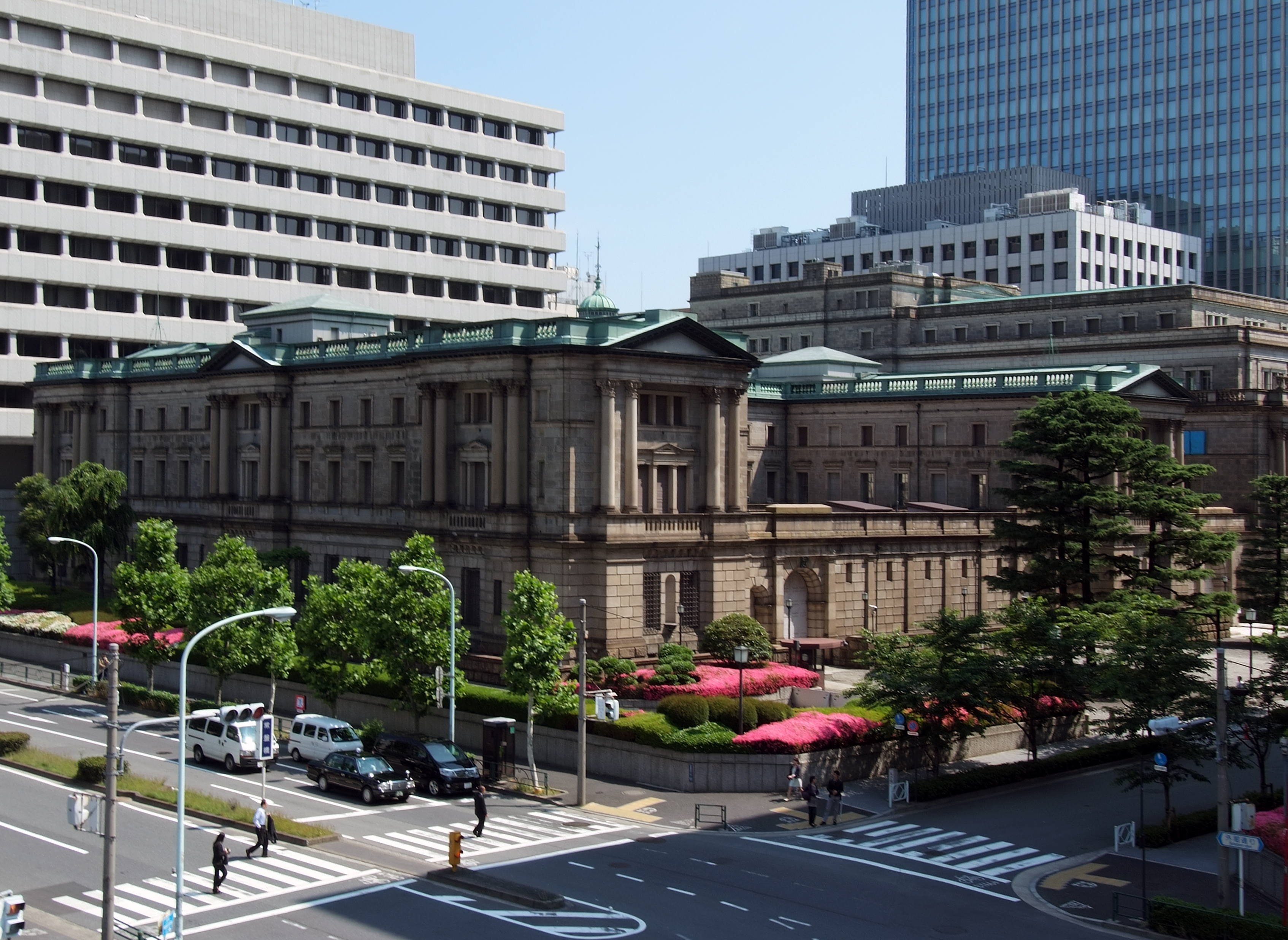 Bank of Japan, Chuo-ku Tokyo Japan, designed by Kingo Tatsuno in 1896.